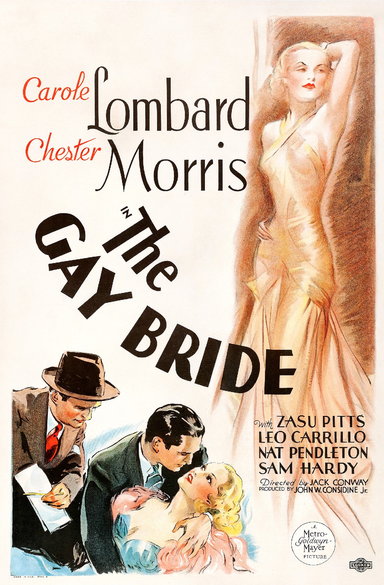 Poster for the American film The Gay Bride (1934). There are no copyright marks on the item, which can be seen at the link. At bottom is a logo for the Tooker Lithograph Company--they printed the poster--Made in USA and #3412 O which probably refer to the print job for the poster.